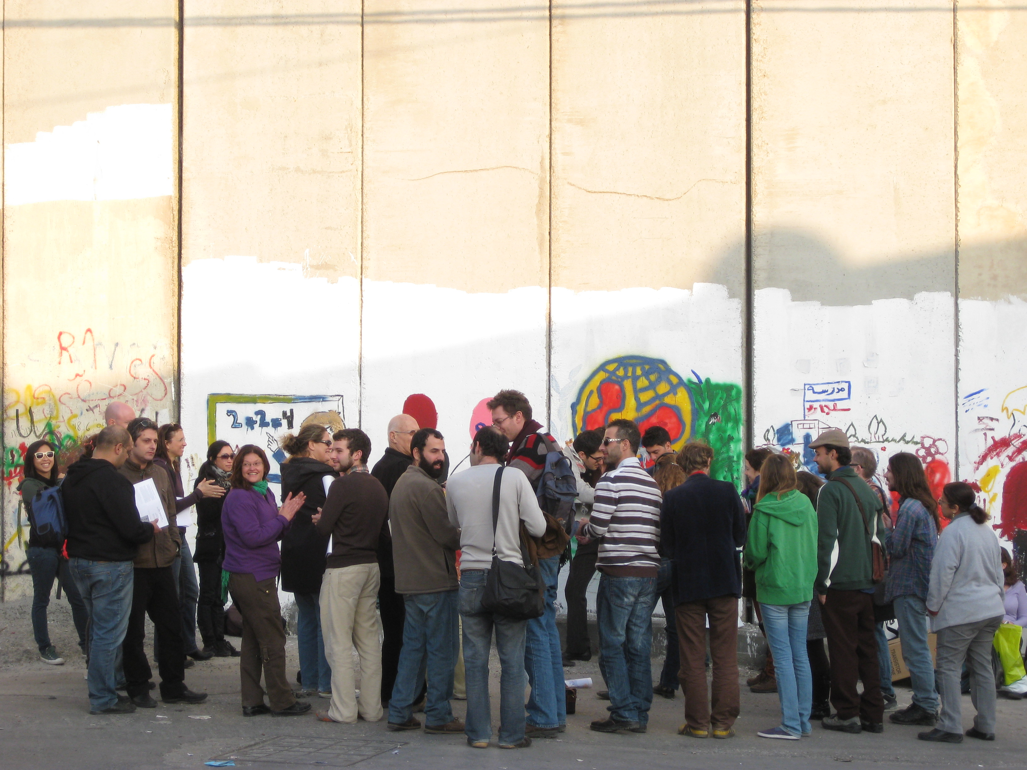 Guerrilla Tarbut in a poetry event against the sepration wall, Abu Dis, East Jerusalem, Israel 2009.